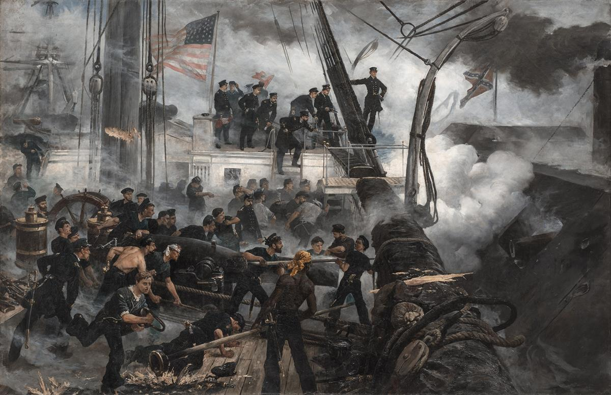 An August Morning with Farragut: The Battle of Mobile Bay, August 5, 1864. Painted by William Haysham Overend in 1883. Now on display in the Wadsworth Atheneum in Hartford, Connecticut, USA.